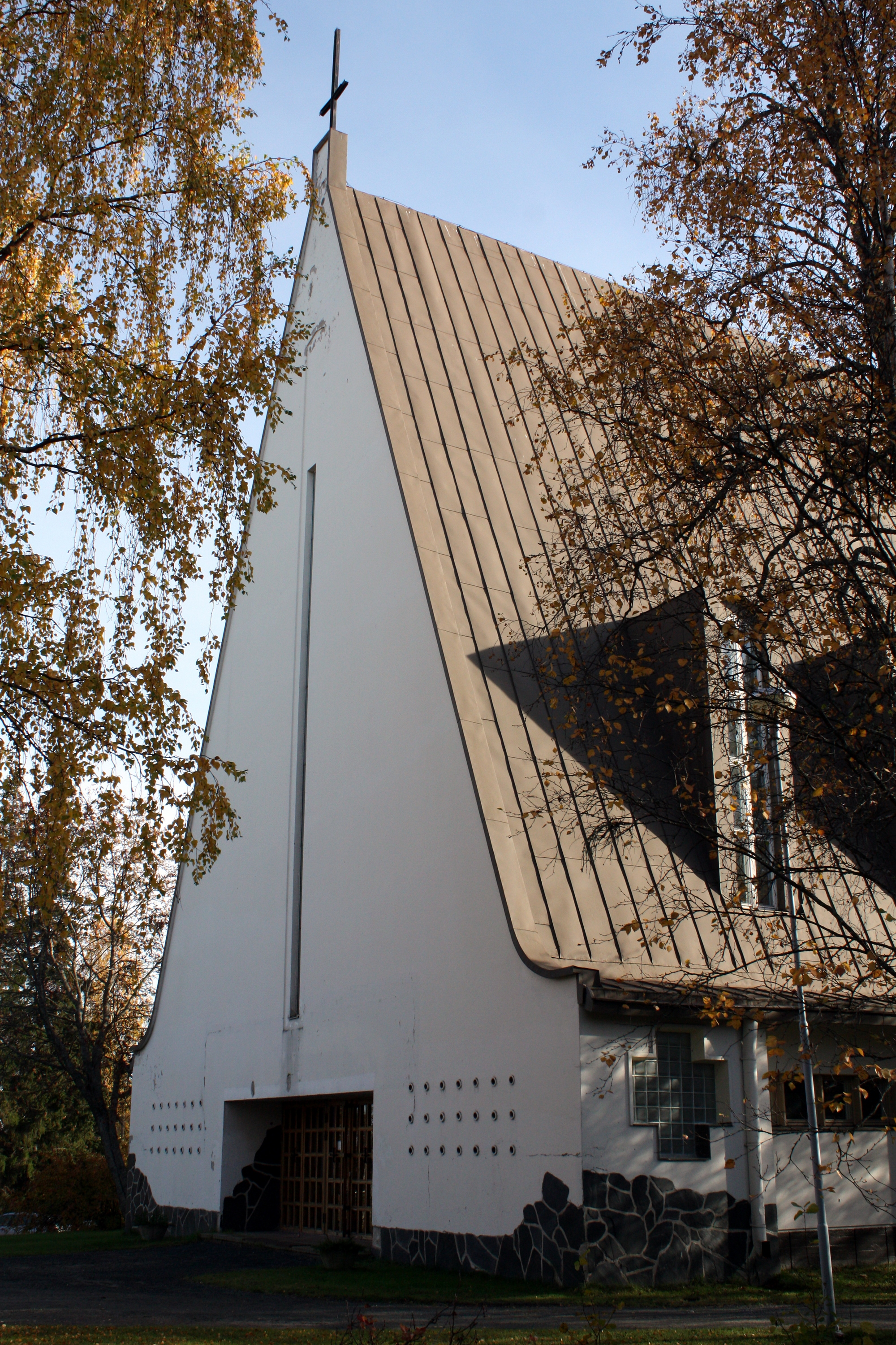 Veitsiluoto Church in Hepola district in Kemi, Finland.